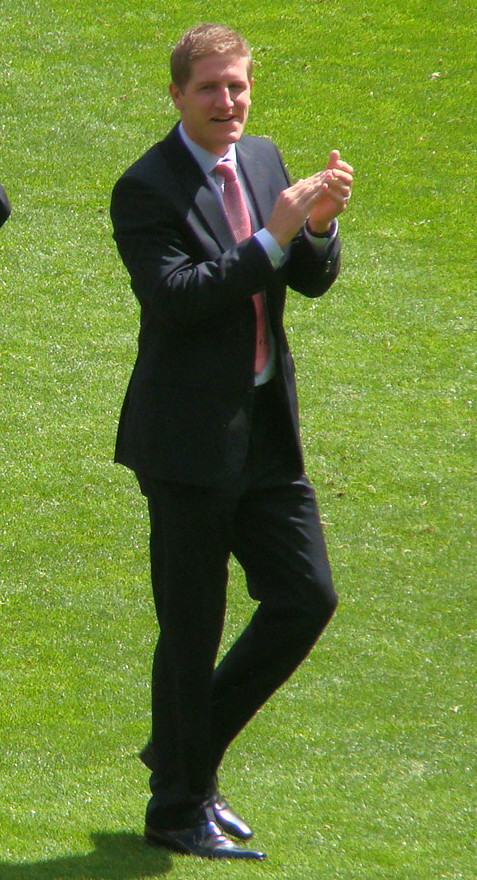 Michael Turner (footballer)